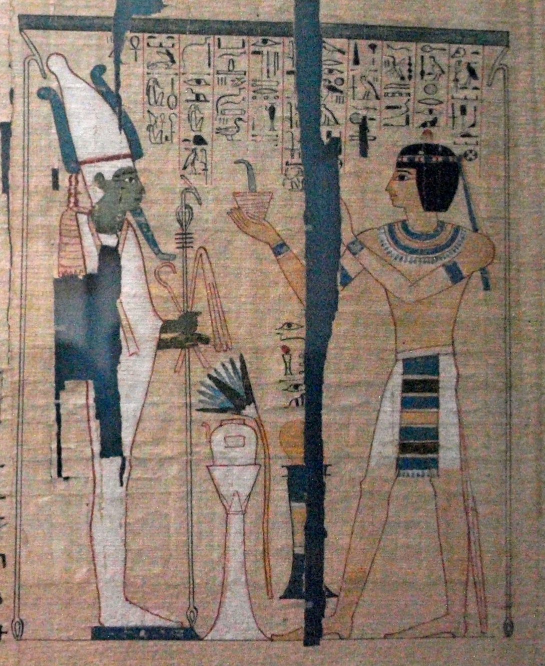 Book of the Dead papyrus of Pinedjem II, 21st dynasty, circa 990-969 BC. Originally from the Deir el-Bahri royal cache. This scene depicts Pinedjem II in his role of High Priest making an offering to the god Osiris. EA 10793/1.